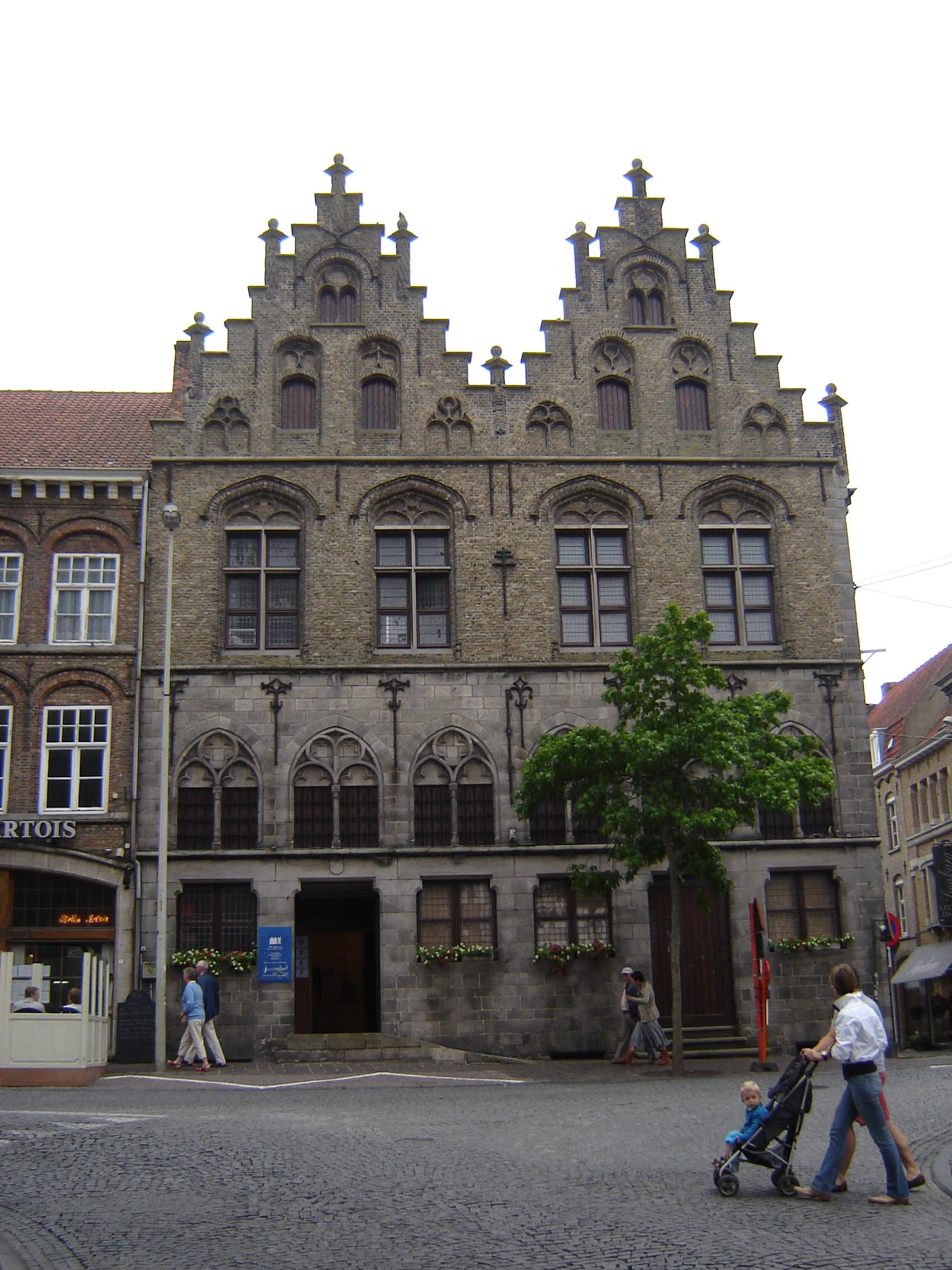 Vleeshuis in Ieper, West Flanders, Belgium